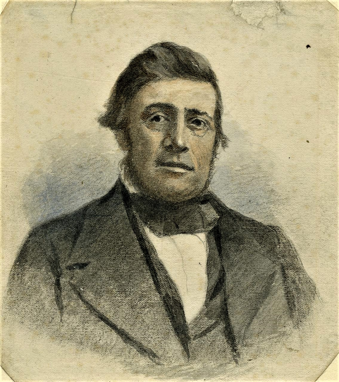 Drawing, 'Self Portrait' by Thomas Lound (1802-1861), pencil and watercolour on paper, undated